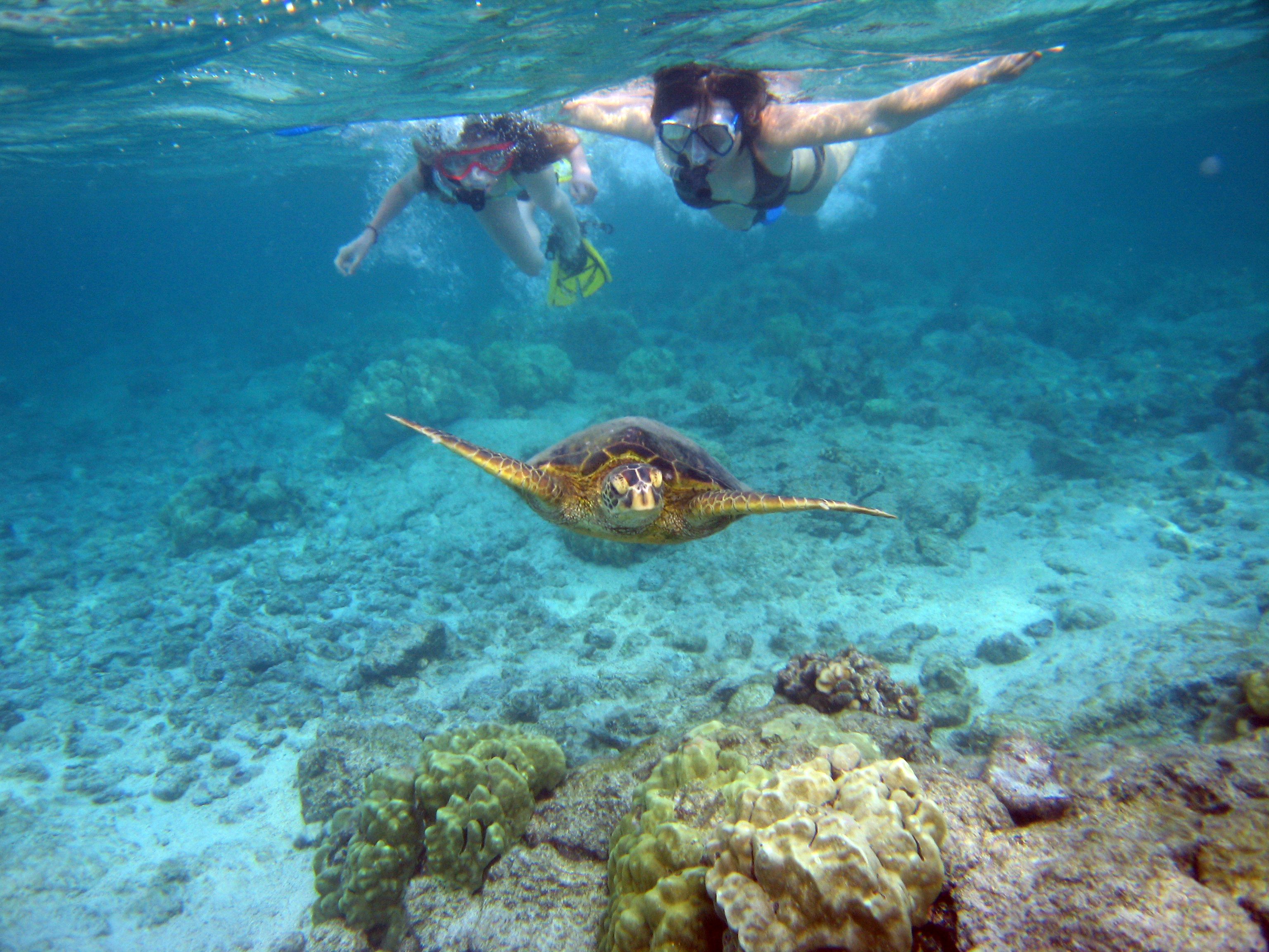 Snorkelers swimming with a Green sea turtle (Chelonia mydas) at Kahaluu Beach County Park in Kahaluʻu Bay — on the Big Island of Hawaiʻi.